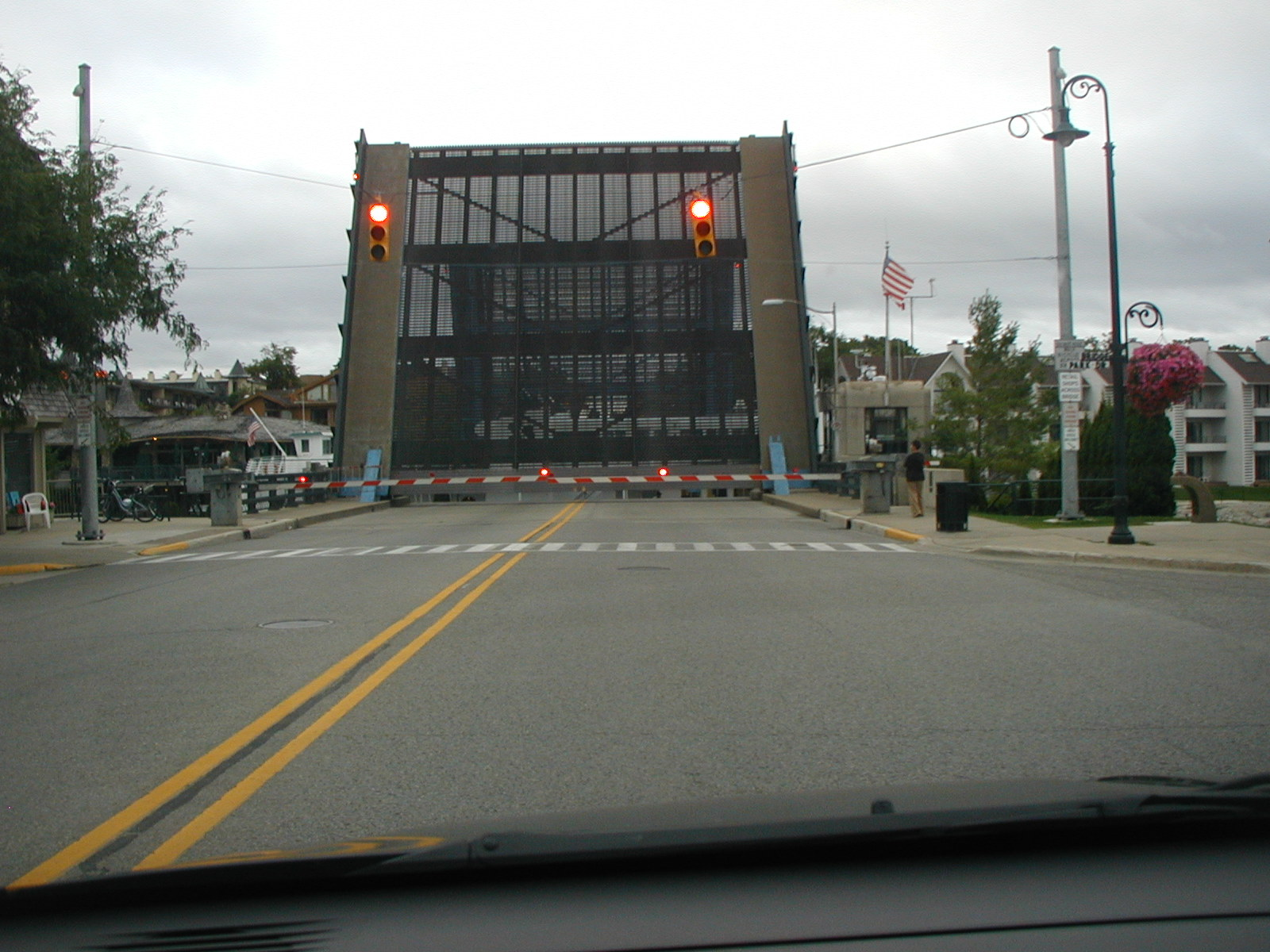 Looking north at the US-31–Island Lake Outlet Bridge, a bascule bridge in Charlevoix, Michigan, in the raised position. The bridge carries US 31.